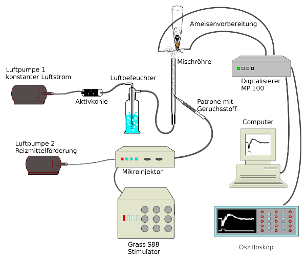 Mounting of a electroantennogram measuring brain electrical activity in ants.